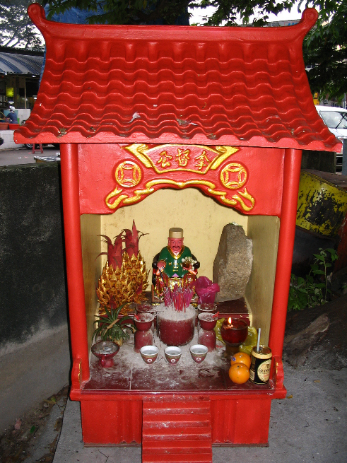 Traditional Malaysian Chinese shrine in Petaling Jaya.